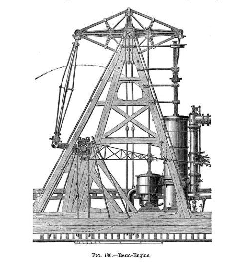 A walking beam engine. Walking beam engines were used to power many American paddle steamers in the 19th century. The large circle in the diagram indicates the paddle which would be turned by the engine's shaft.